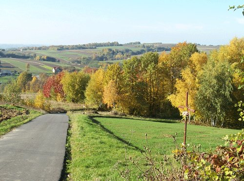 Lekawka from Ostra Gora